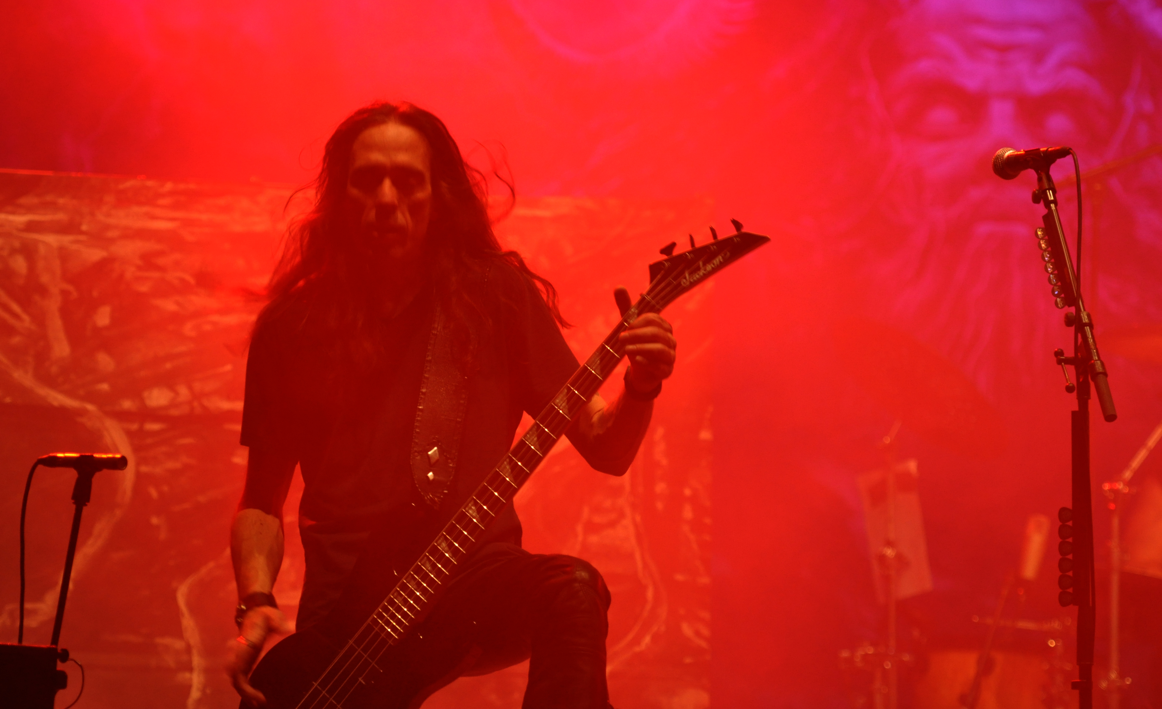 Greg Christian of Testament at Paspop 2013, Schijndel, NL